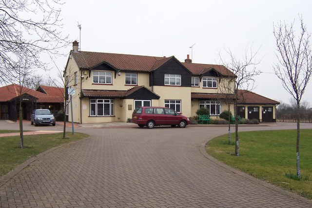 St Clare Hospice, Hastingwood. The St.Clare Hospice, Hastingwood, near Harlow provides support and help for terminally ill patients and their carers. It is entirely a self funding charity and has earned an enviable reputation in the care provided, the dedication and extertise of the staff, the nursing facilities and the support given to patients and their families.